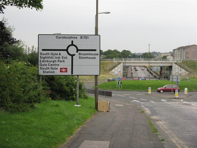 The view north along Broomhouse Road (B701). The nearest bridge was built for the West Edinburgh Busway. The one just visible underneath, with the yellow patches, takes the main railway from Edinburgh to Carstairs and all points south.